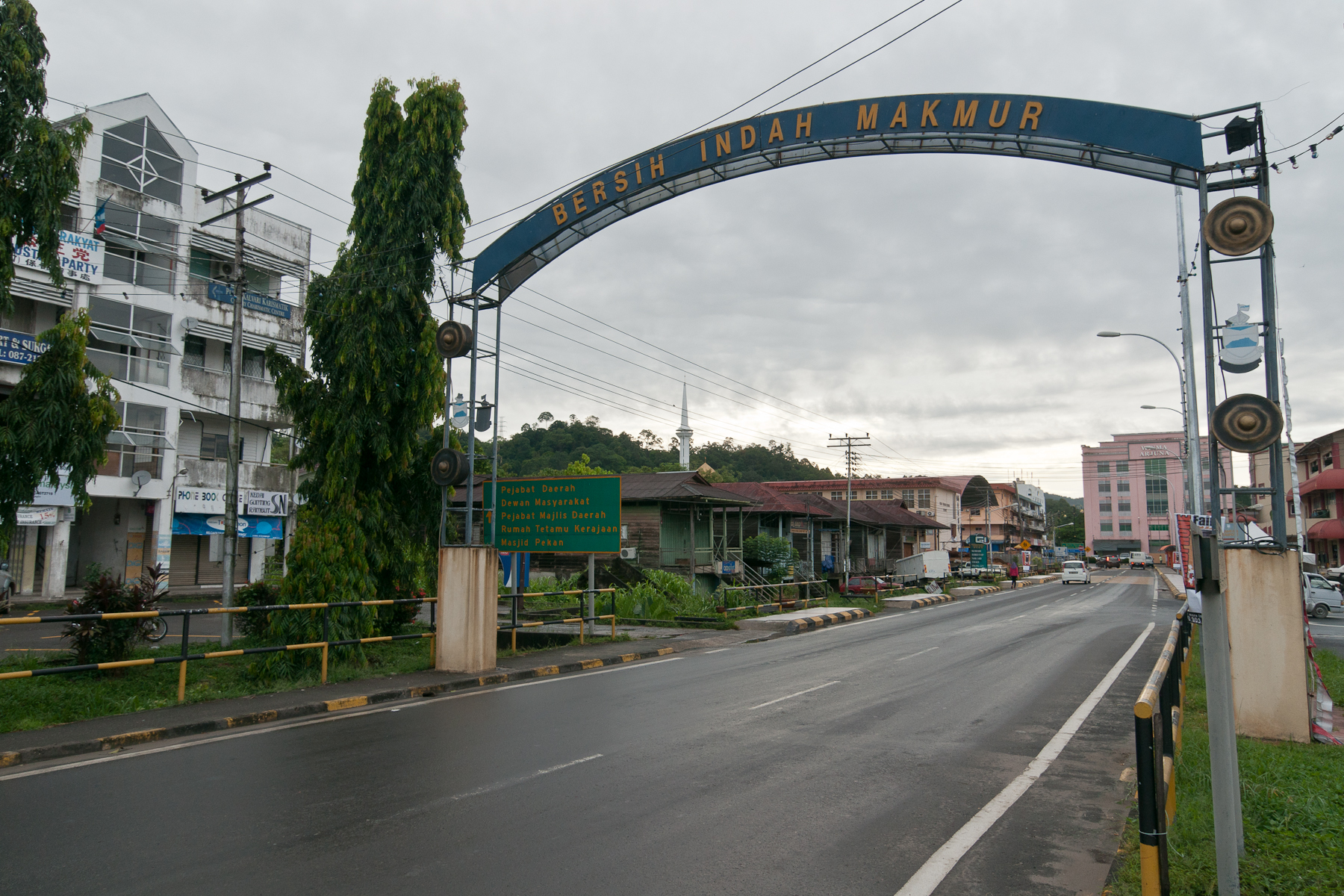 Beaufort (Sabah): Main Road